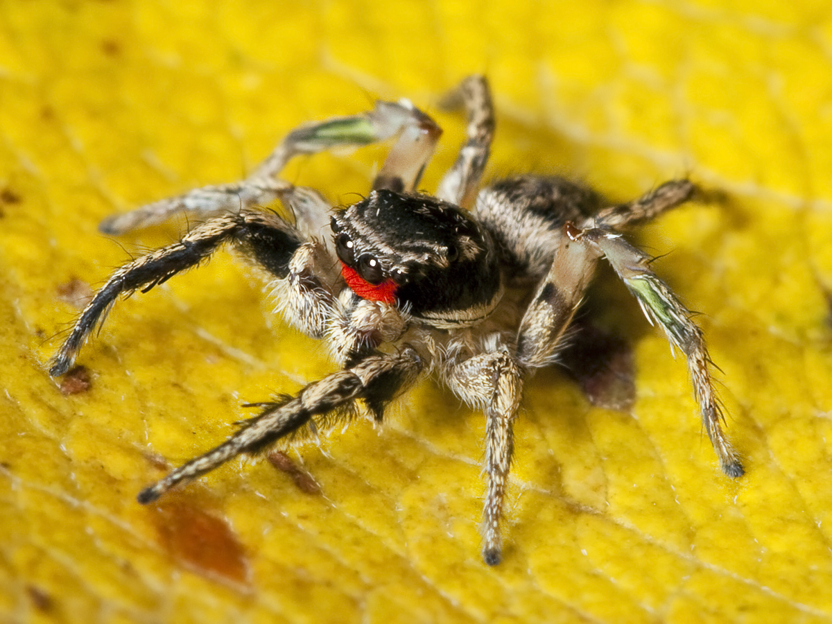 Adult male Habronattus coecatus jumping spider in Nashville, Tennessee. Body length is approximately 4.5 mm.